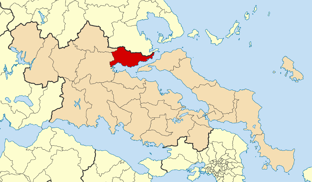 Locator map for Stylida municipality in Greek region Central Greece (2011)